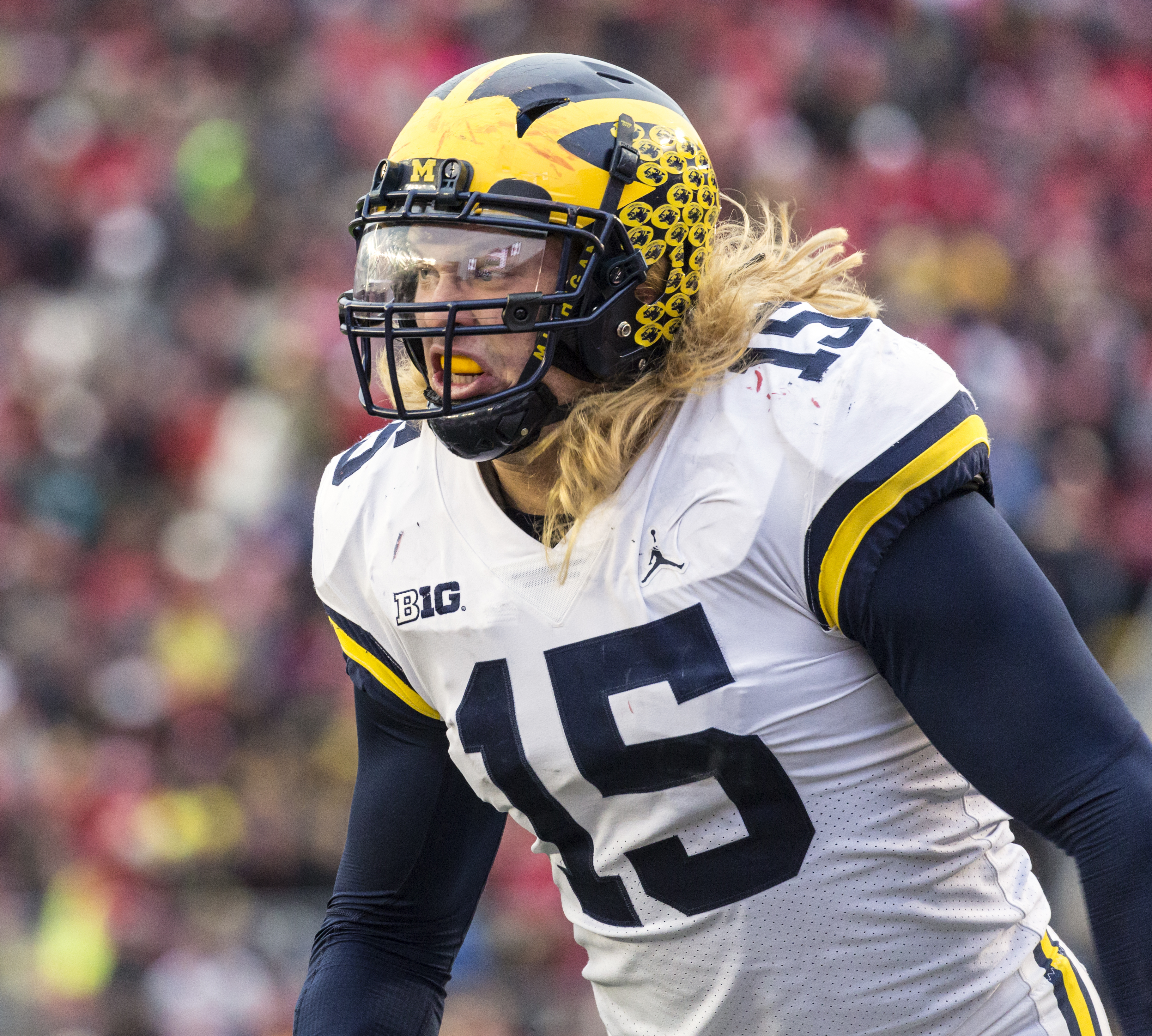 PAB_FBC_atWisconsin2017_76